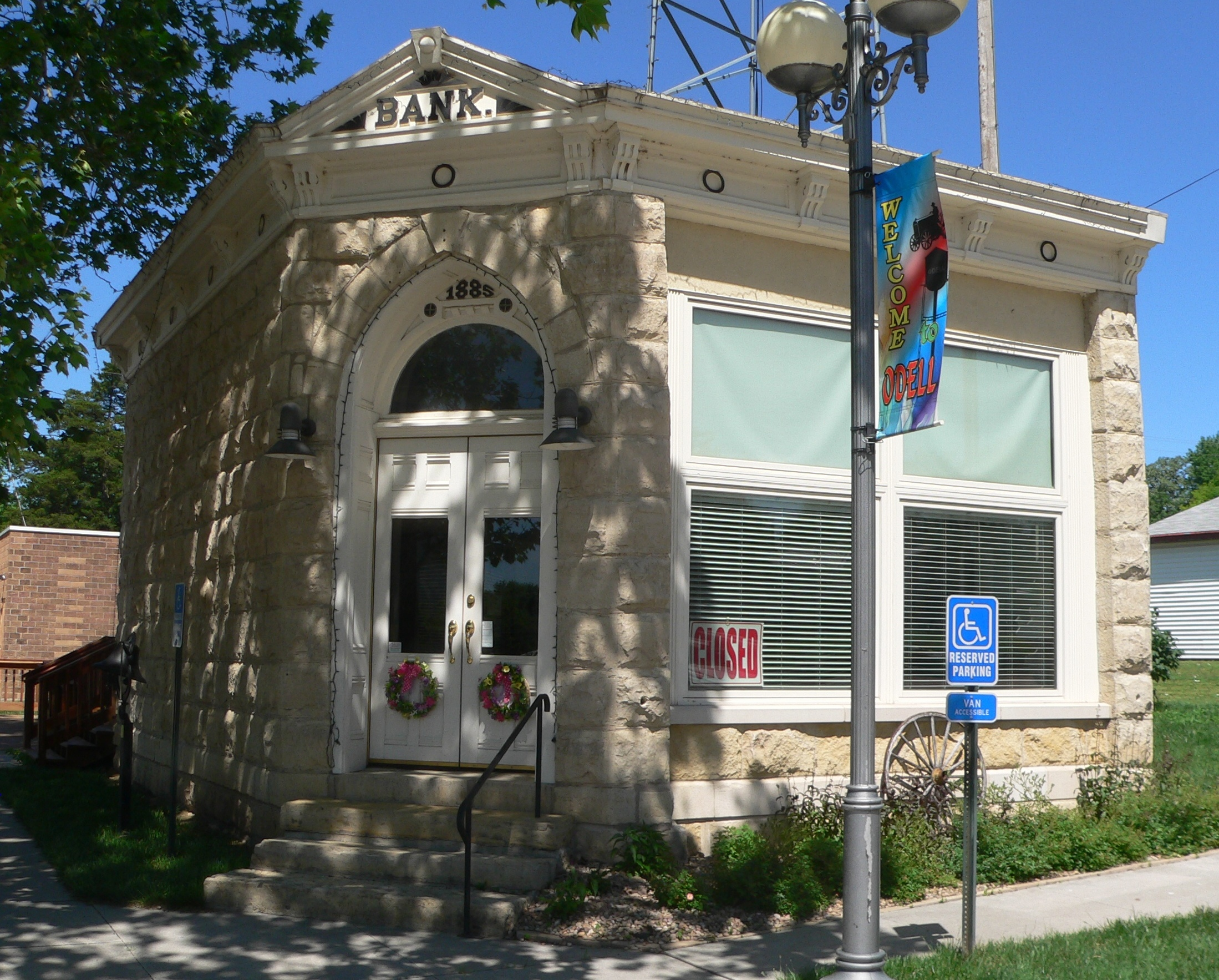 Old West Trails Center, located at 301 Main Street (northwest corner of Main and Ida Streets) in Odell, Nebraska; seen from the southeast.